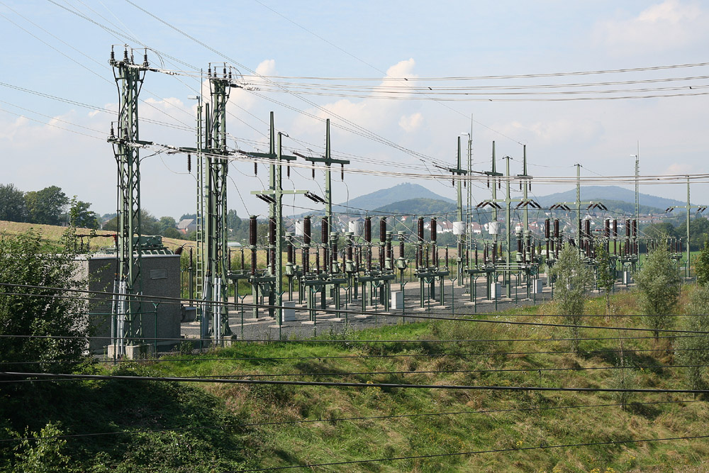 The Orscheid electrical substation is one of six substations on the Cologne-Frankfurt high-speed railway line. It is located near Tunnel Rottbitze